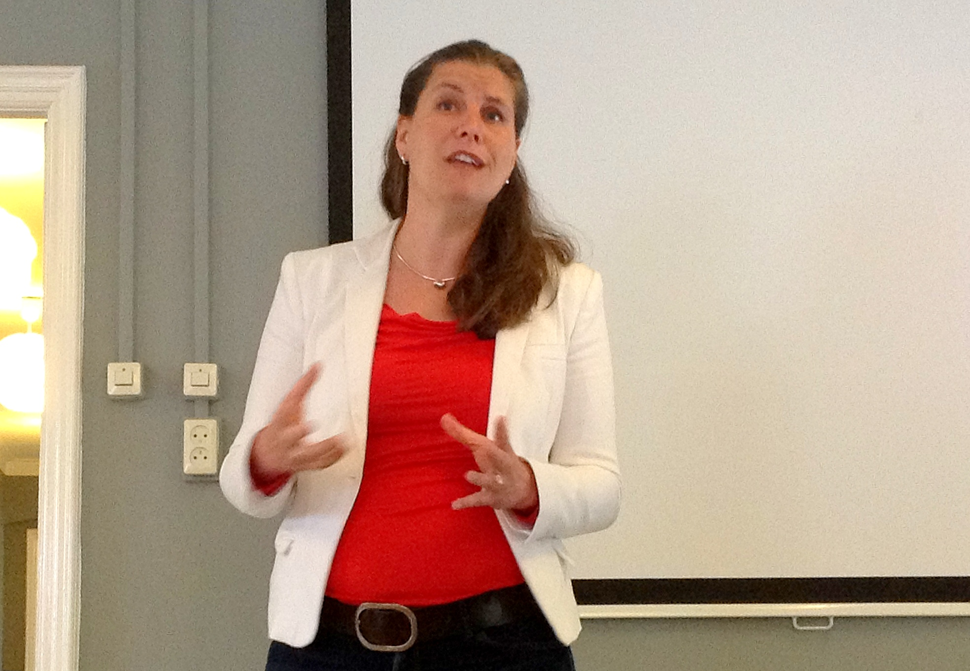 Fleur Gräper-van Koolwijk, chair of Democrats 66 (Democraten 66).